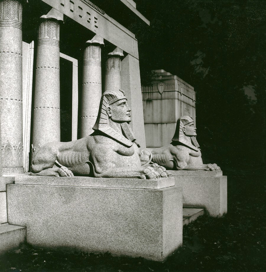 photo by einar einarsson Kvaran aka Carptrash 22:59, 4 February 2007 (UTC). Dodge Brothers Mausoleum, Woodlawn Cemetery (Detroit) from Cemetery Sculpture in America, unpublished manuscript